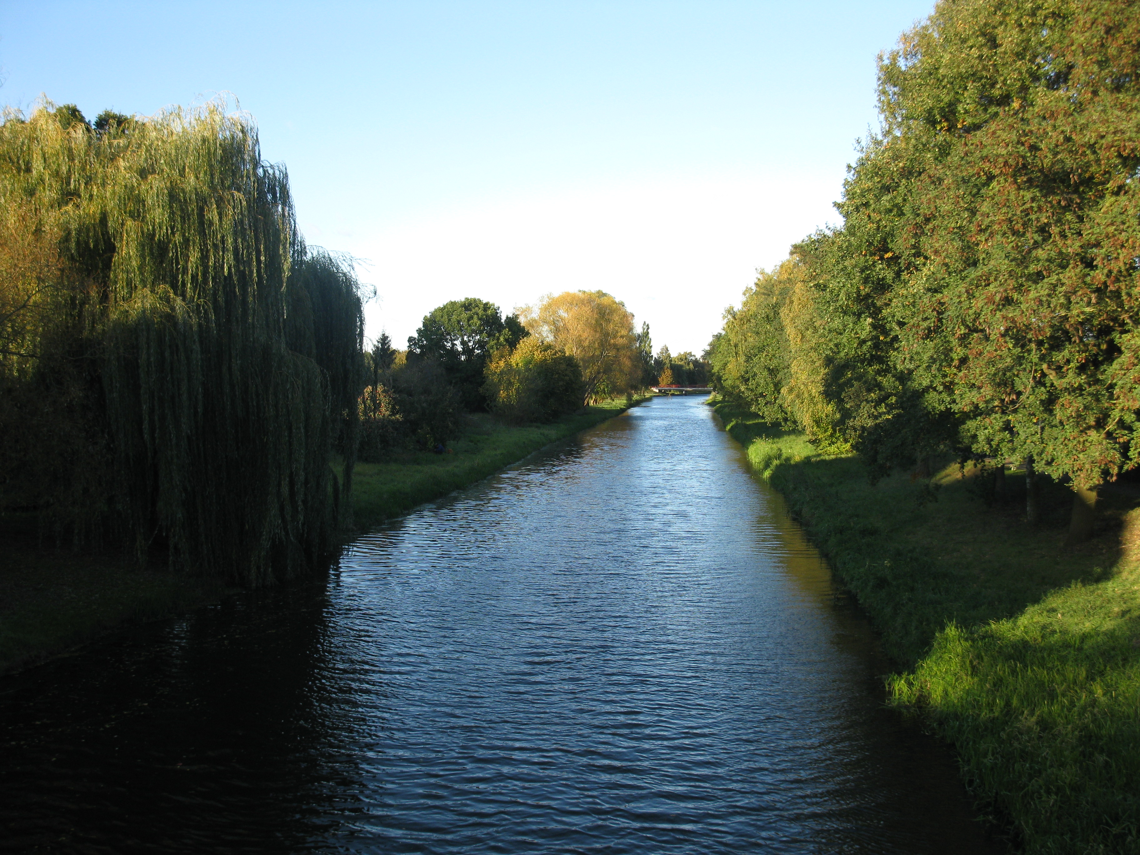 River Jeetzel in Wustrow (Wendland), Germany